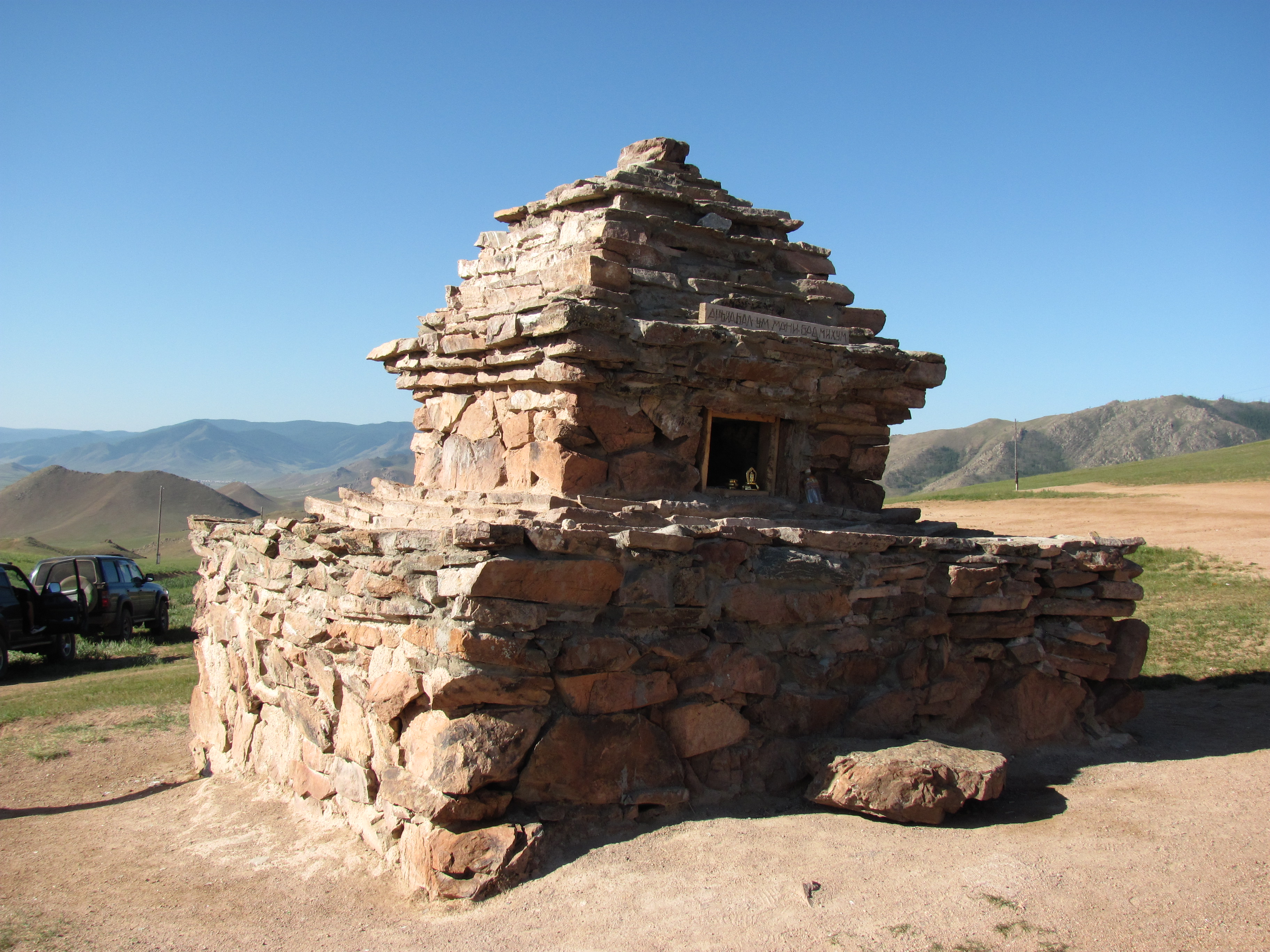 Gelenkhuugiin Suvraga, a stupa built in 1890. Khövsgöl Aimag, Mongolia.